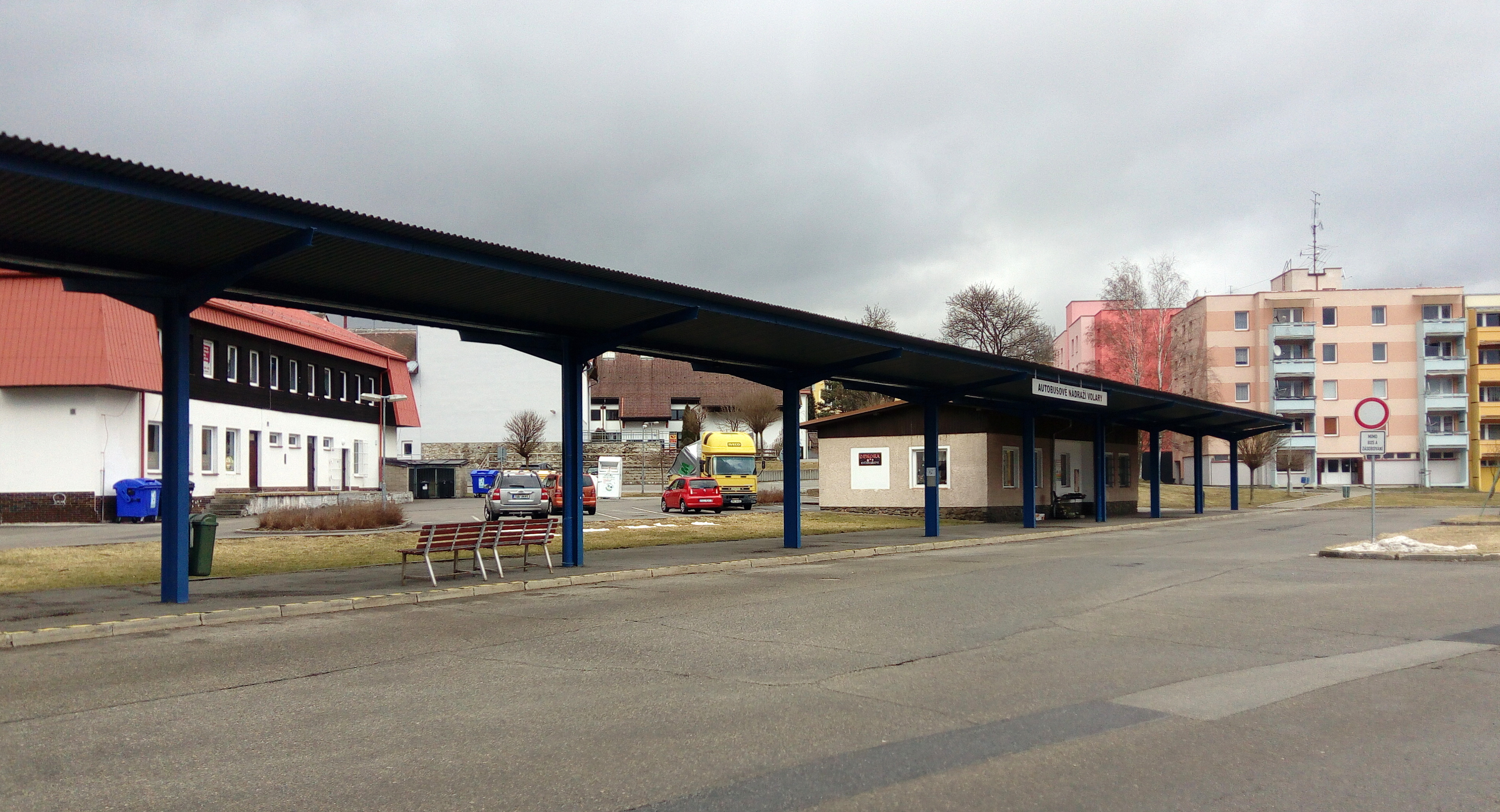 Bus station in Volary, South Bohemian Region, Czechia